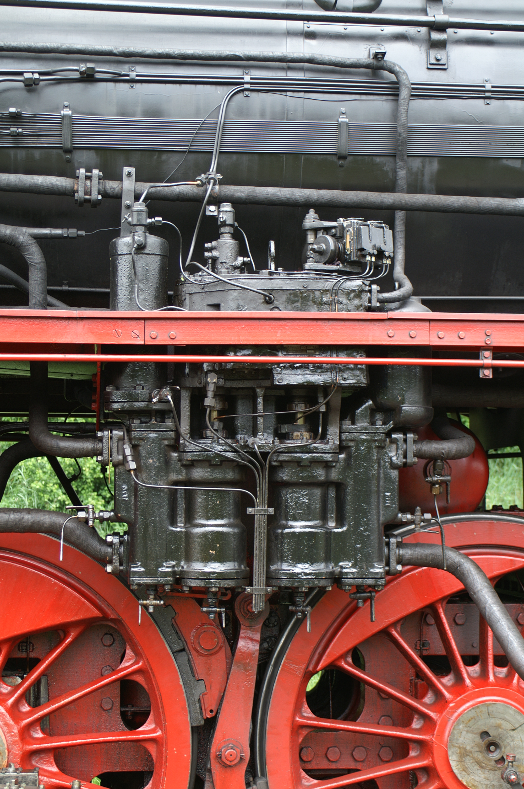 Compound proportioning pump VMP 15-20